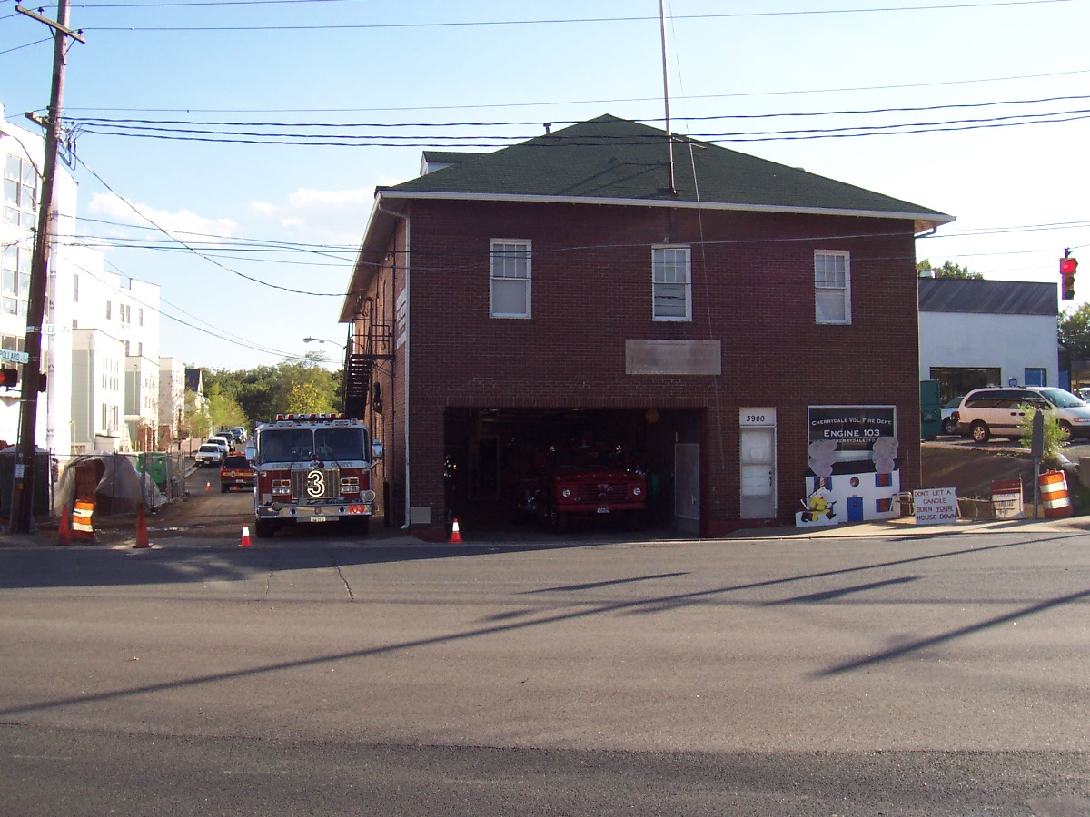 The Cherrydale Volunteer Fire House, a national and state landmark.